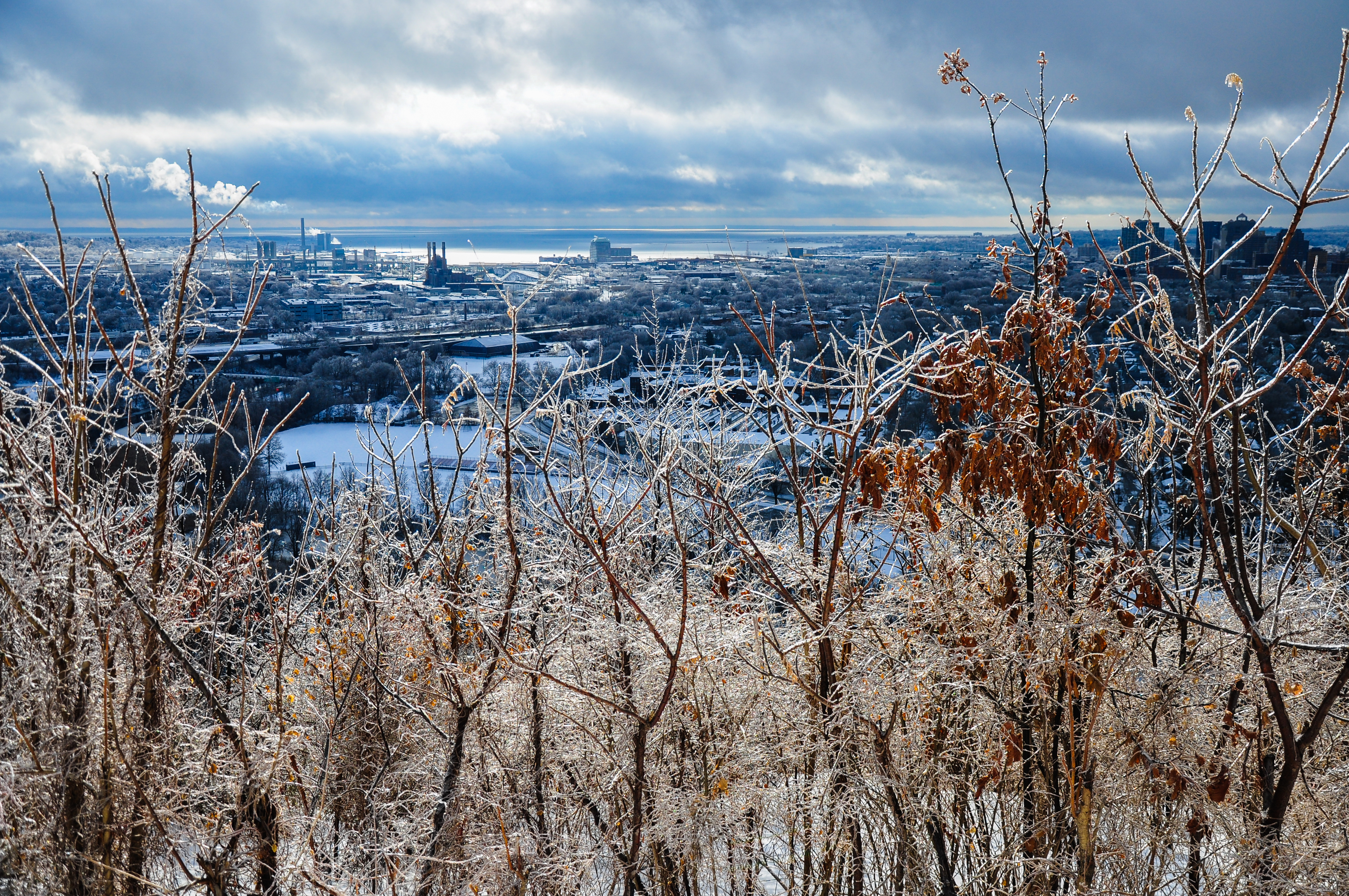 New Haven from the top of East Rock after a snowstorm.